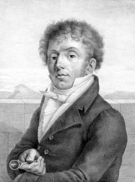 Italian composer Giuseppe Nicolini (1762-1842).